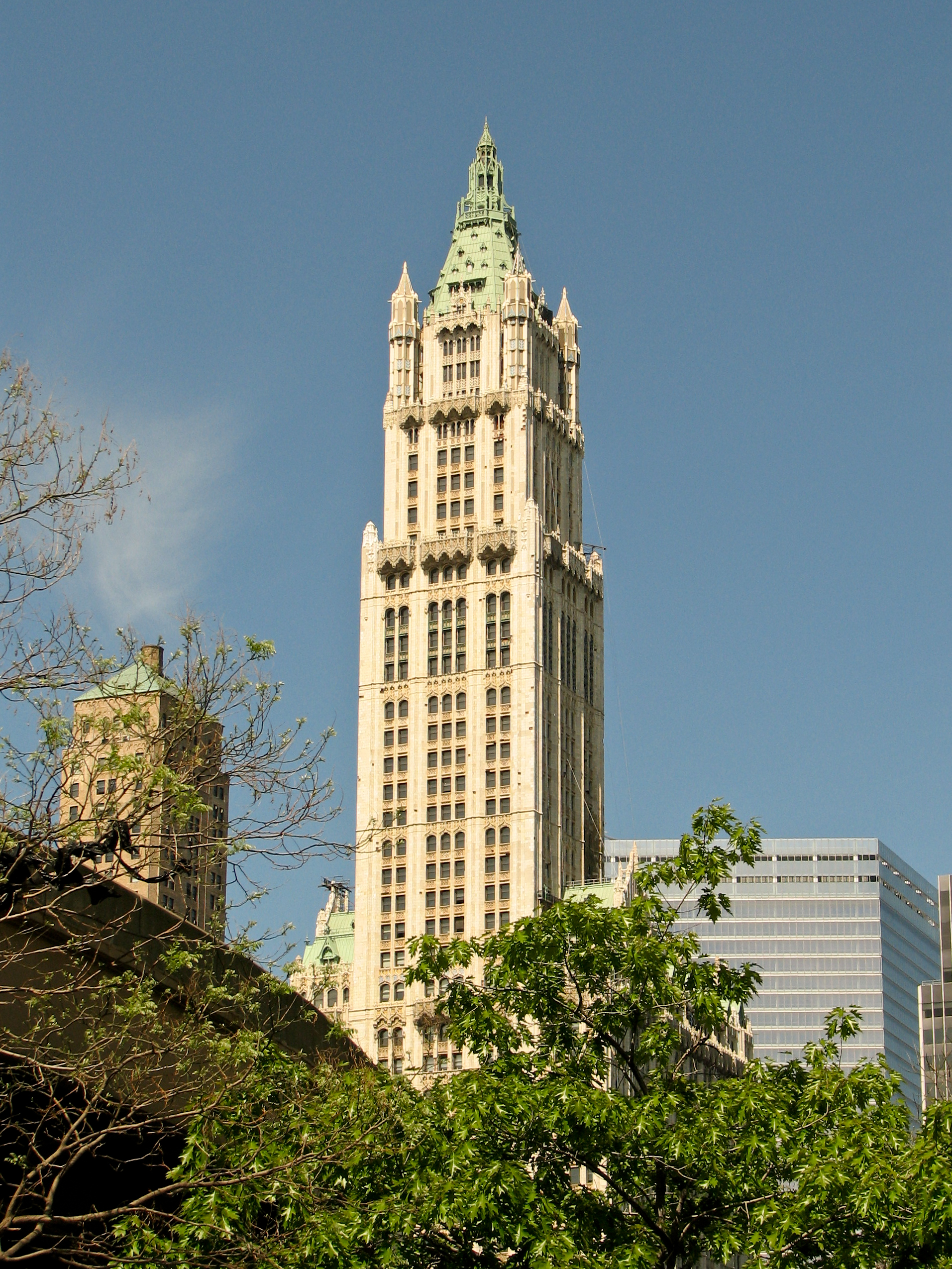 New York City - Woolworth Building